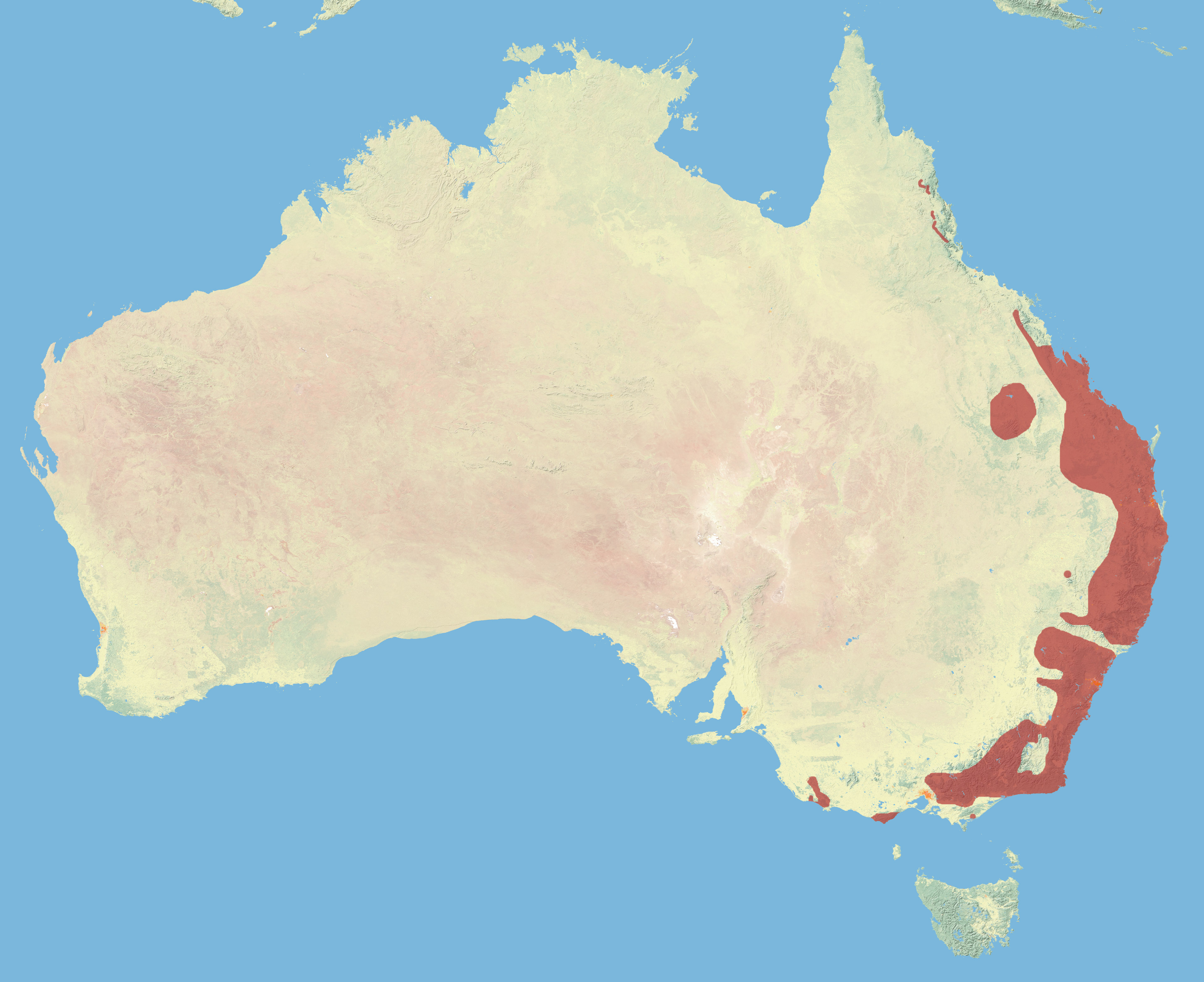 The Distribution of the Yellow-bellied Glider According to the IUCN